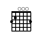 G major chord for guitar in open position. Beginners chord.